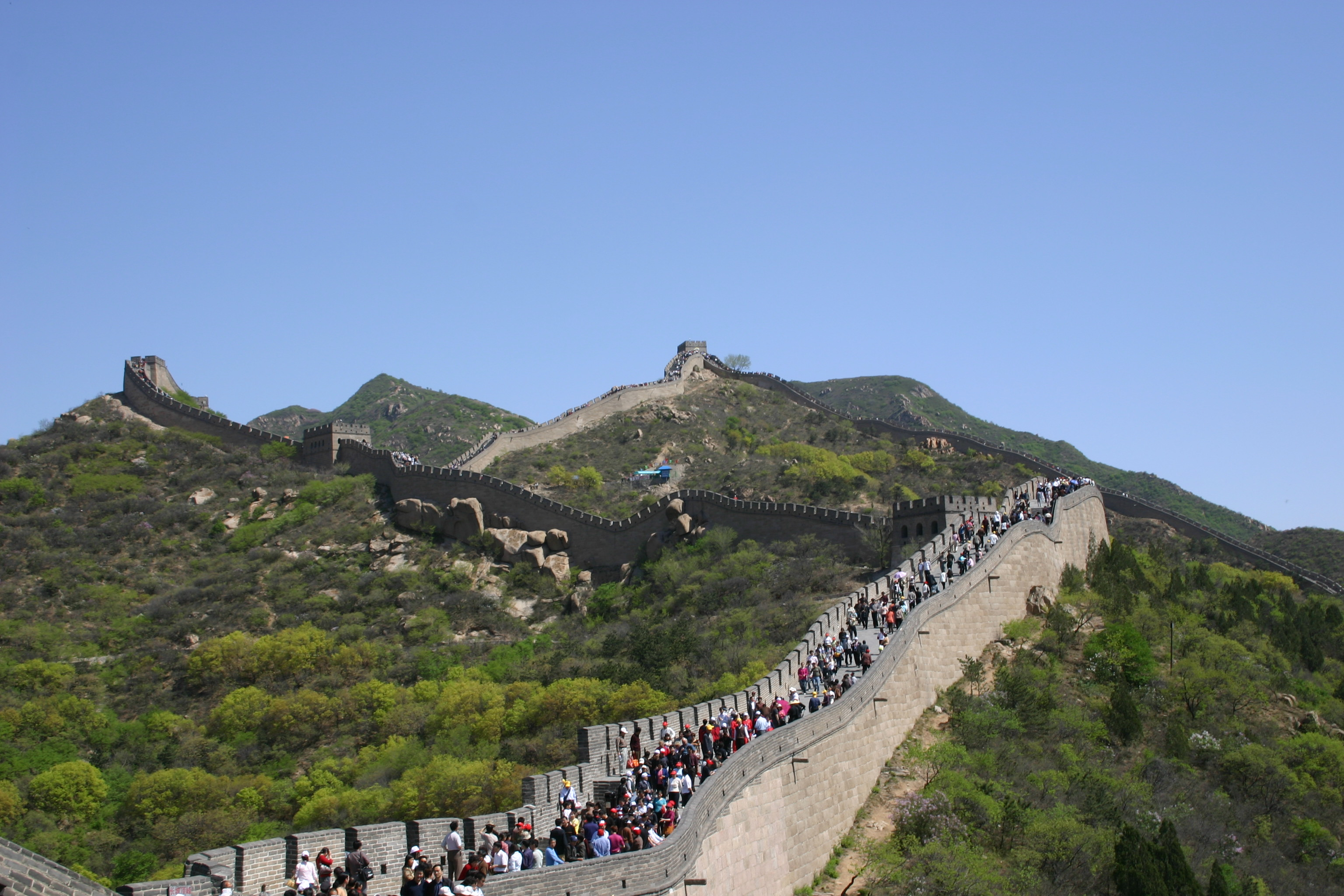 April morning view of the Great Wall of China at Badaling, 2004